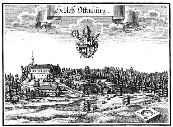 Castle Ottenburg made by Michael Wening in Topographia Bavariae about 1700